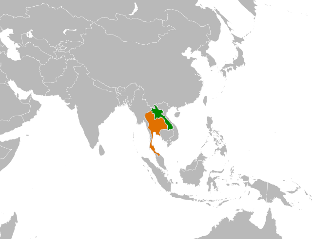 Locator map showing Laos and Thailand